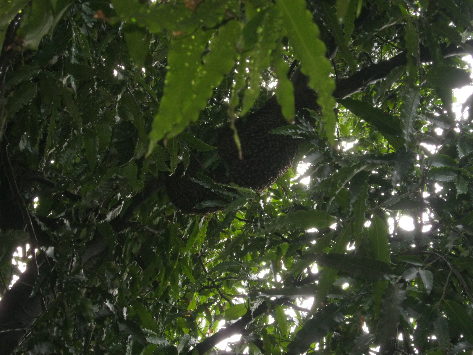 Apis dorsata, giant honeybee, its huge nest on Polyalthia tree